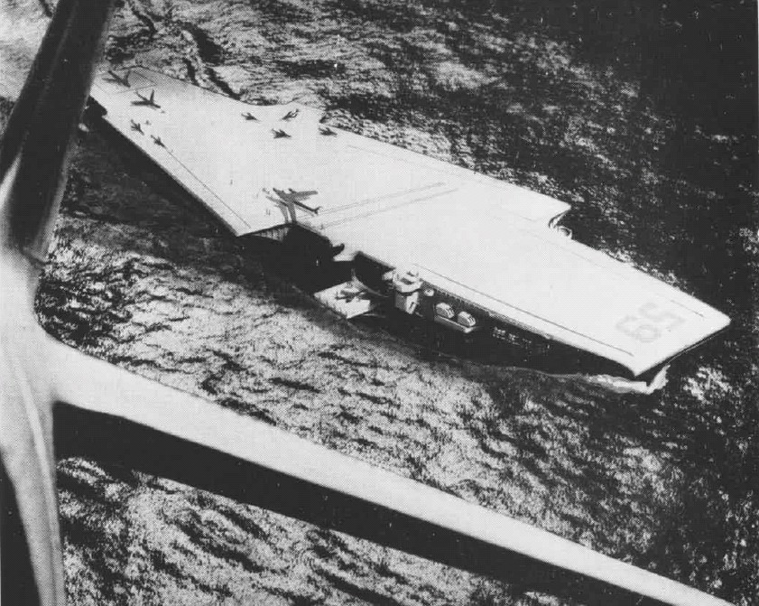 Artist's impression of the new Forrestal-class aircraft carriers of the U.S. Navy as it appeared in the U.S. Naval Aviation News of November 1952.